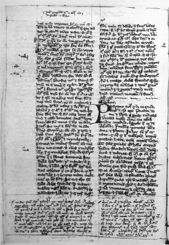 A page of Responsio ad articulos sibi impositos de scriptis et dictis suis.